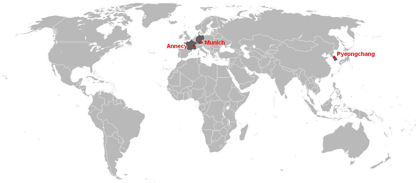 The candidate cities to host the 2018 Winter Olympics, derived from blank world map. Green : Applicant cities